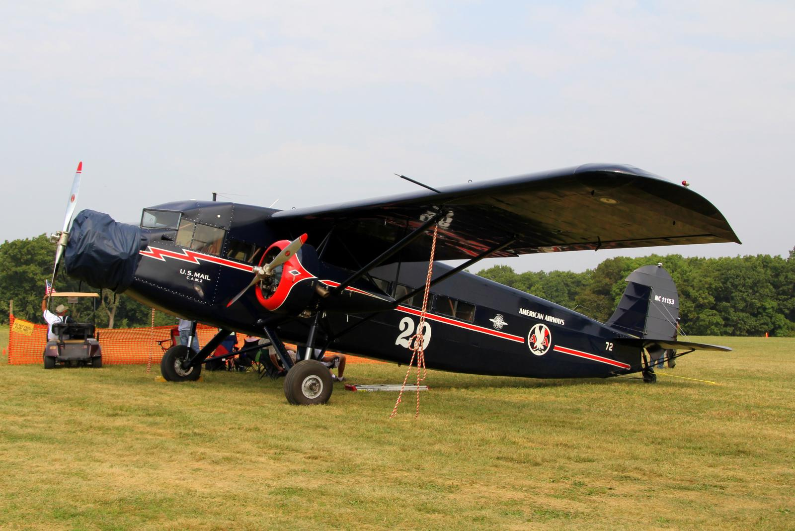 1931 Stinson SM-6000-B C/N 5021